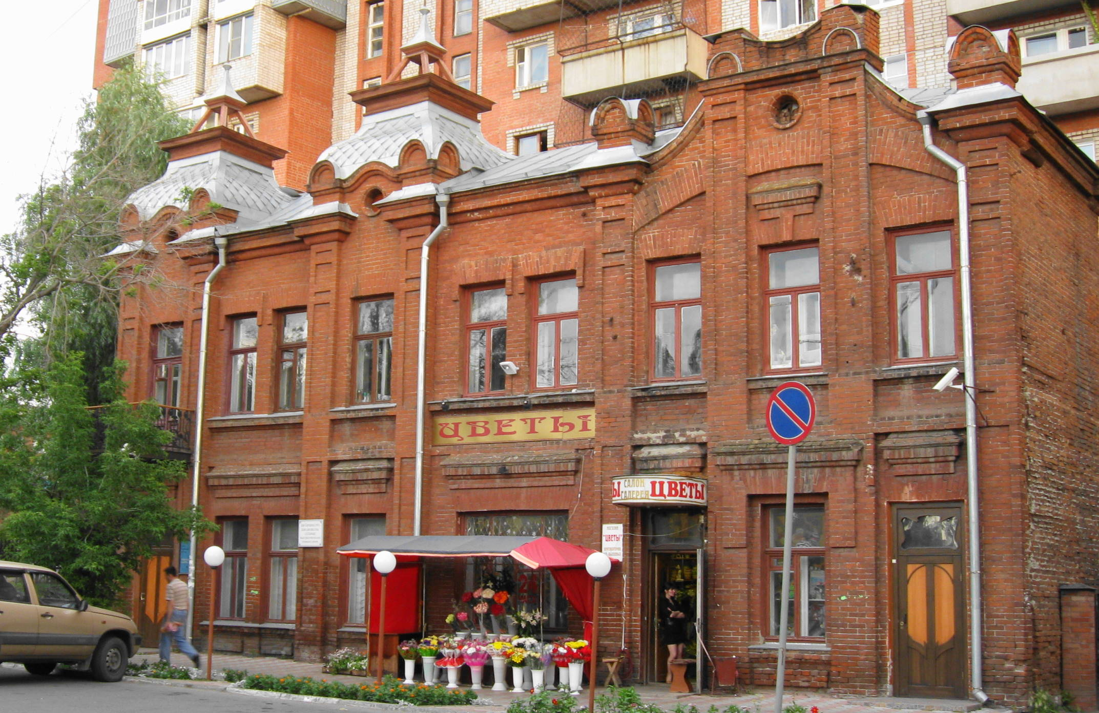 The house of Sorokins in Omsk (Lermontova str).jpg